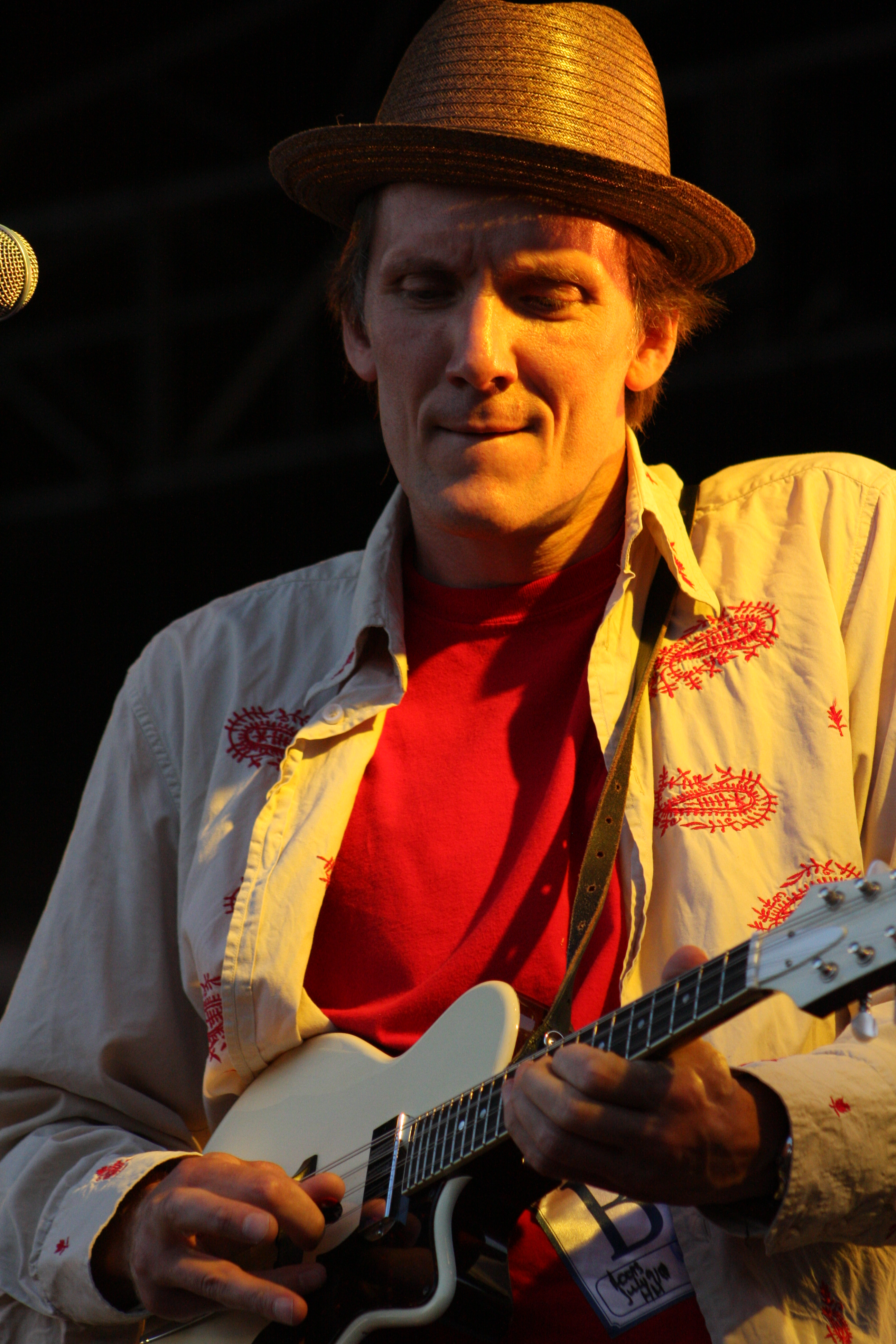 Cisco Systems Ottawa Bluesfest 2008 Roots Stage